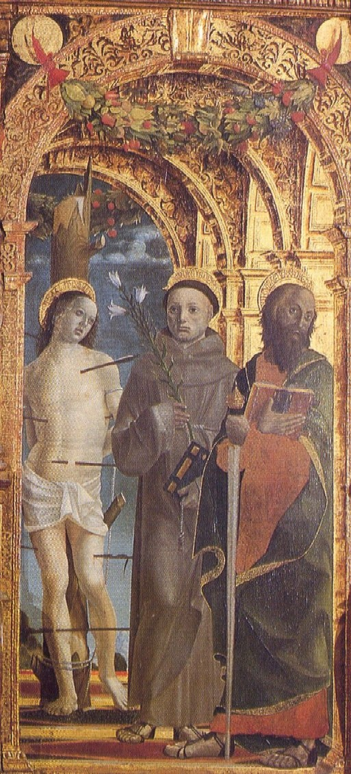 Detail of a polyptych showing Saint Sebastian and Anthony of Padua.